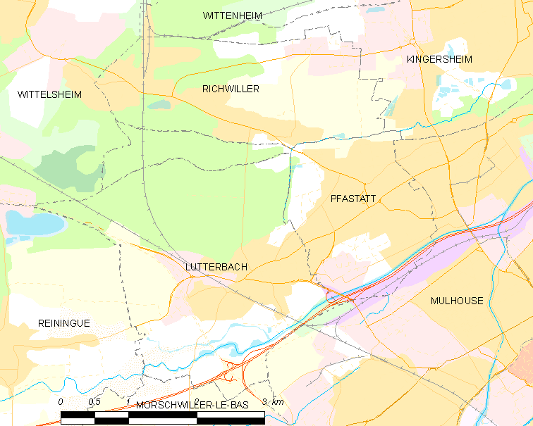 Map of French municipality